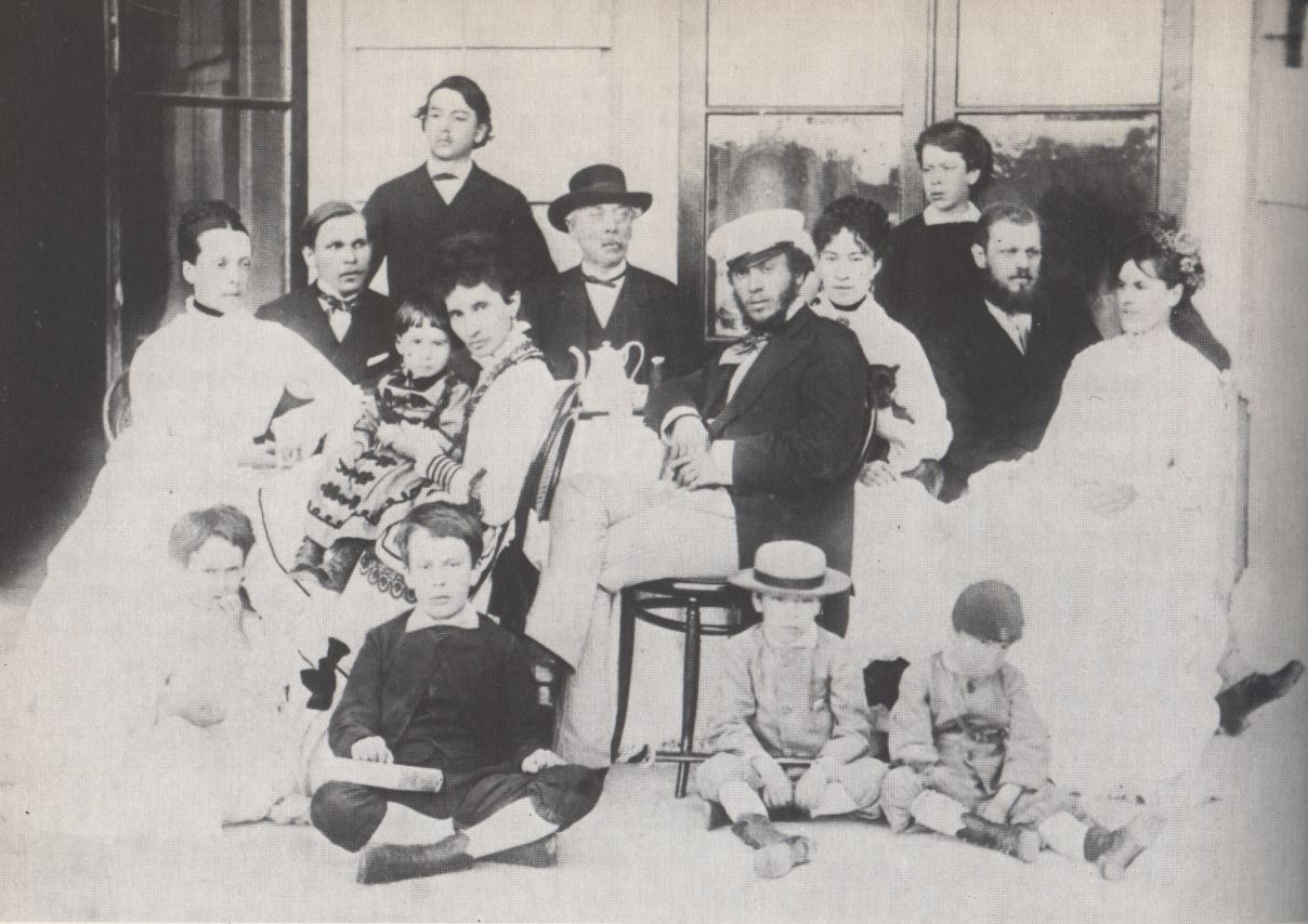 The family von Meck around 1875. The baroness Nadezhda Filaretovna is left and holding in her arms the youngest daughter, Ljudmila (Milochka). This little girl was in reality the illegitimate daughter of Alexander Yolshin, sitting on the left and too secretary of the Baroness' husband, the engineer Karl von Meck (center with dark hat). Karl-unaware of the fact-heard of this truth by their second daughter Alexandra thing that caused the death of man to heart attack. The children of the couple von Meck were as many as 18 (between 1848 and 1872), of which 11 survivors. In the photo in the center with white hat, Vladimir, one of the favorite sons of the Baroness.